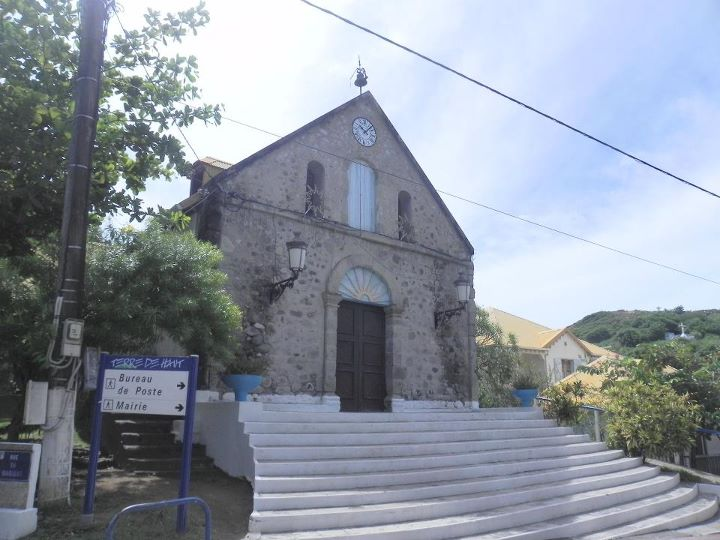 Notre-Dame de l'Assomption 's church Terre-de-Haut (îles des Saintes) French West Indies. Historical monument since 1979.